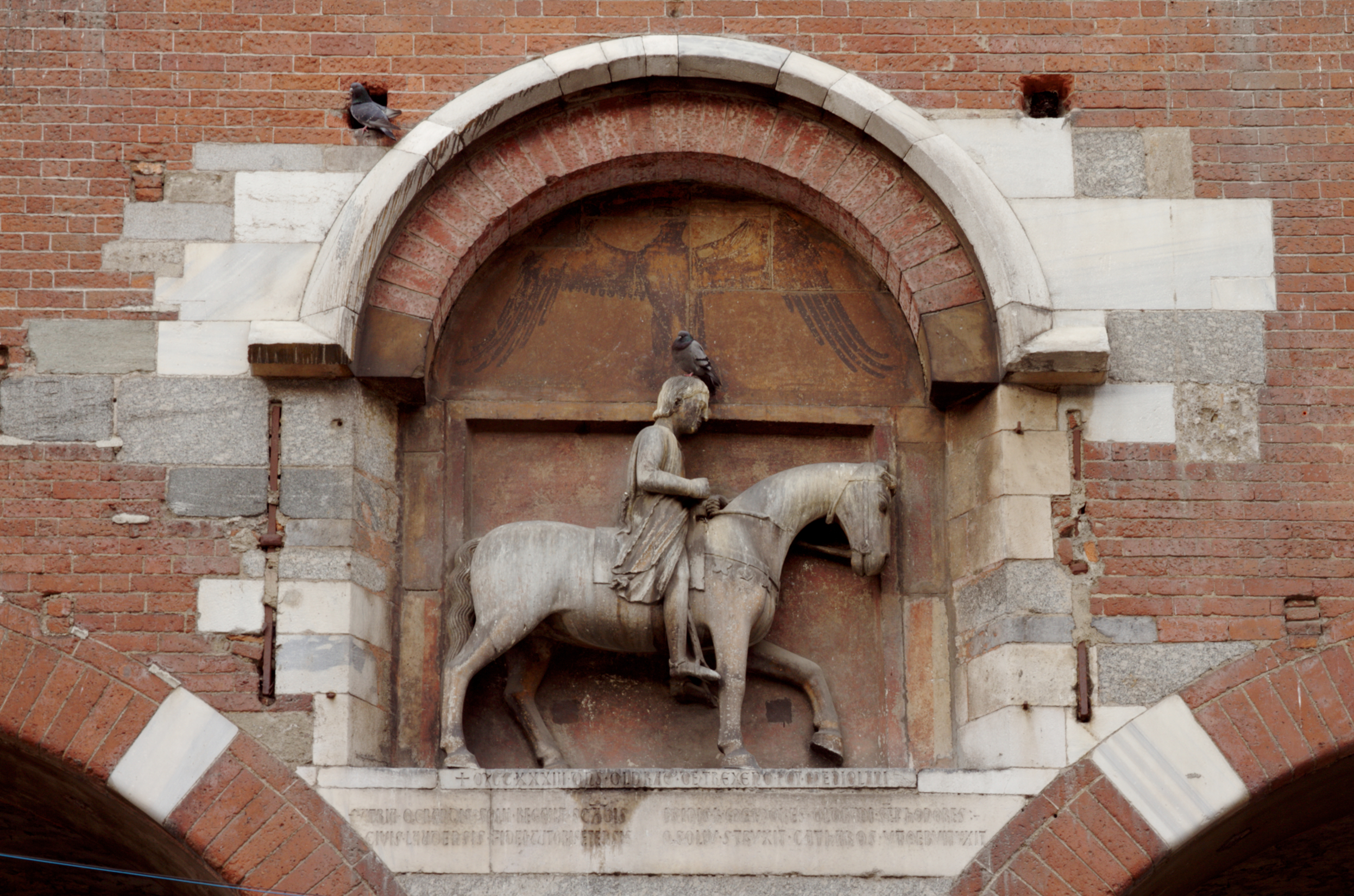 Broletto Nuovo - Milan 2014